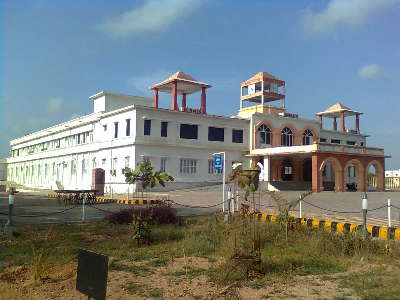 This picture is taken before the renovation of the station. It is also considered an attraction in Somnath.